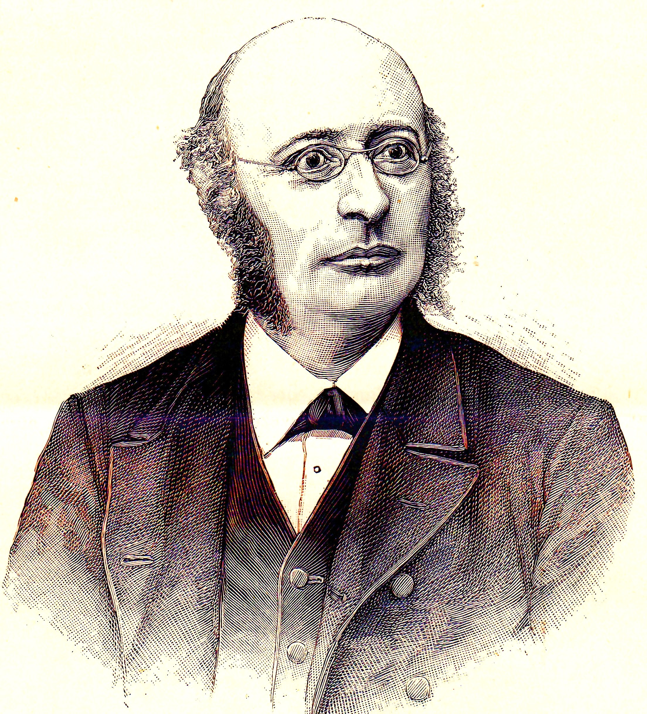 Prof. B.J. Stokvis